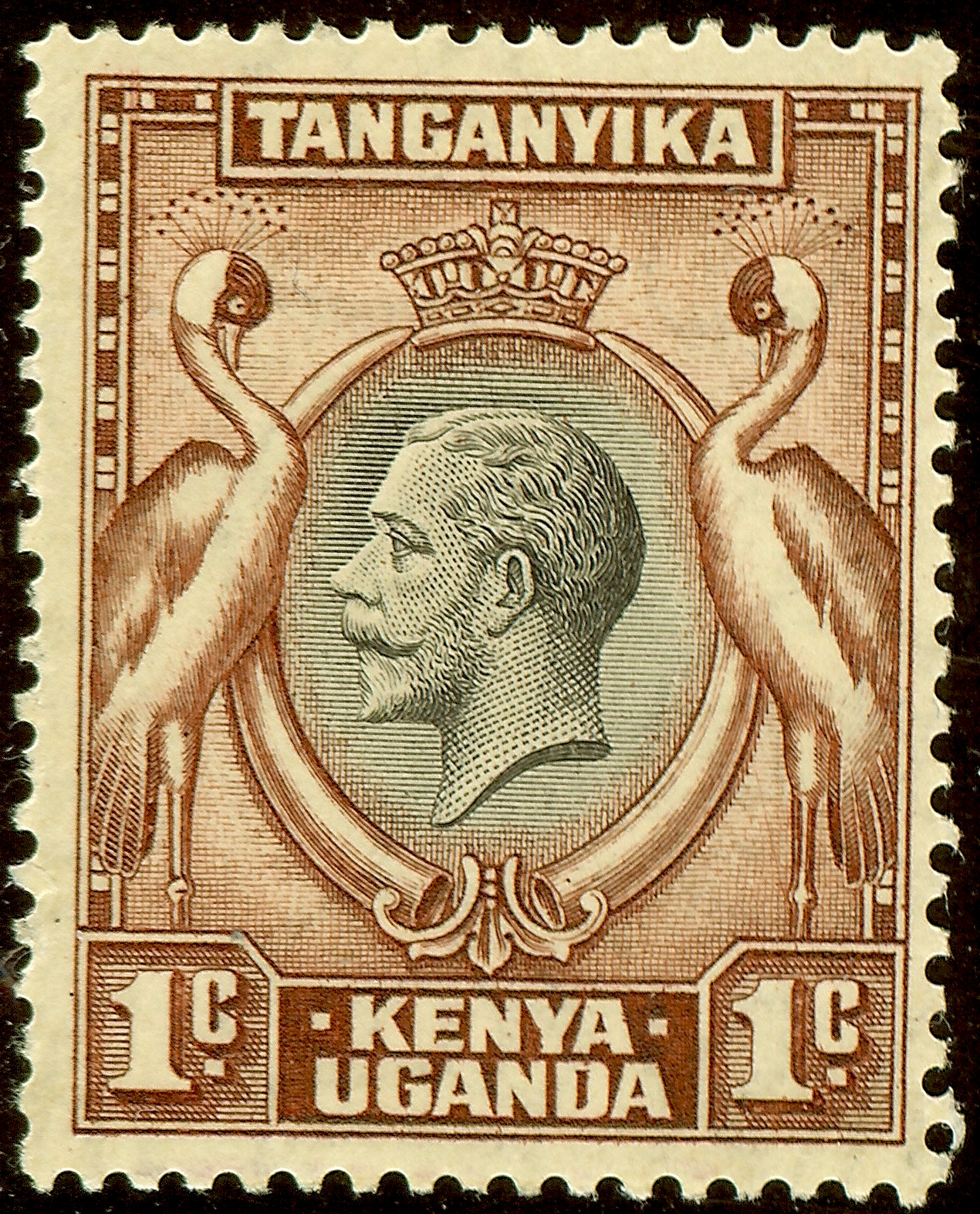 Scan of Kenya Uganda Tanganyika 1c stamp of 1935